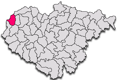 Map Salaj County Romania